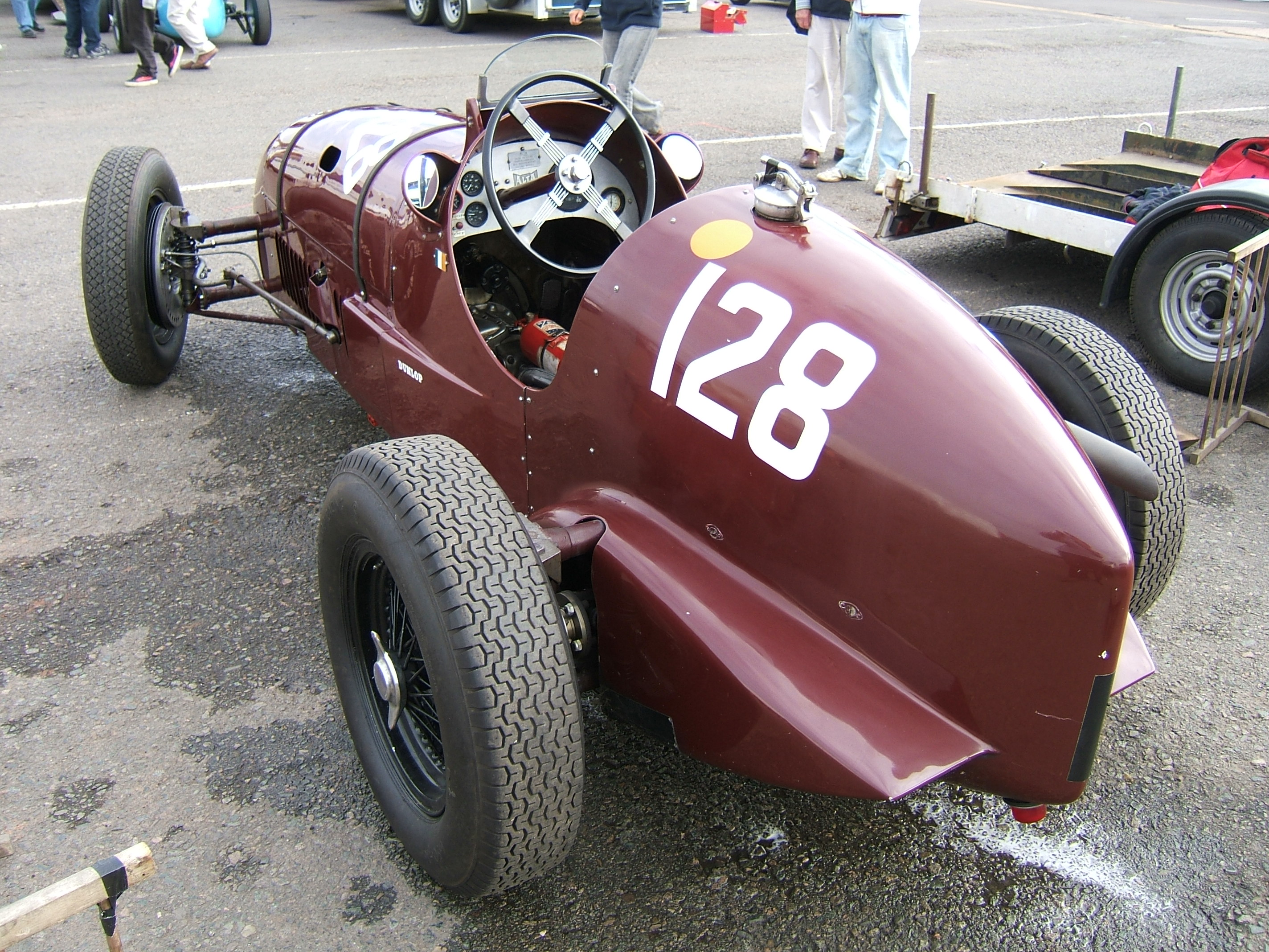 A rear three-quarter view of a pre-WWII Alta racing car, photographed in the paddock at the VSCC SeeRed race meeting, Donington Park, September 2007.